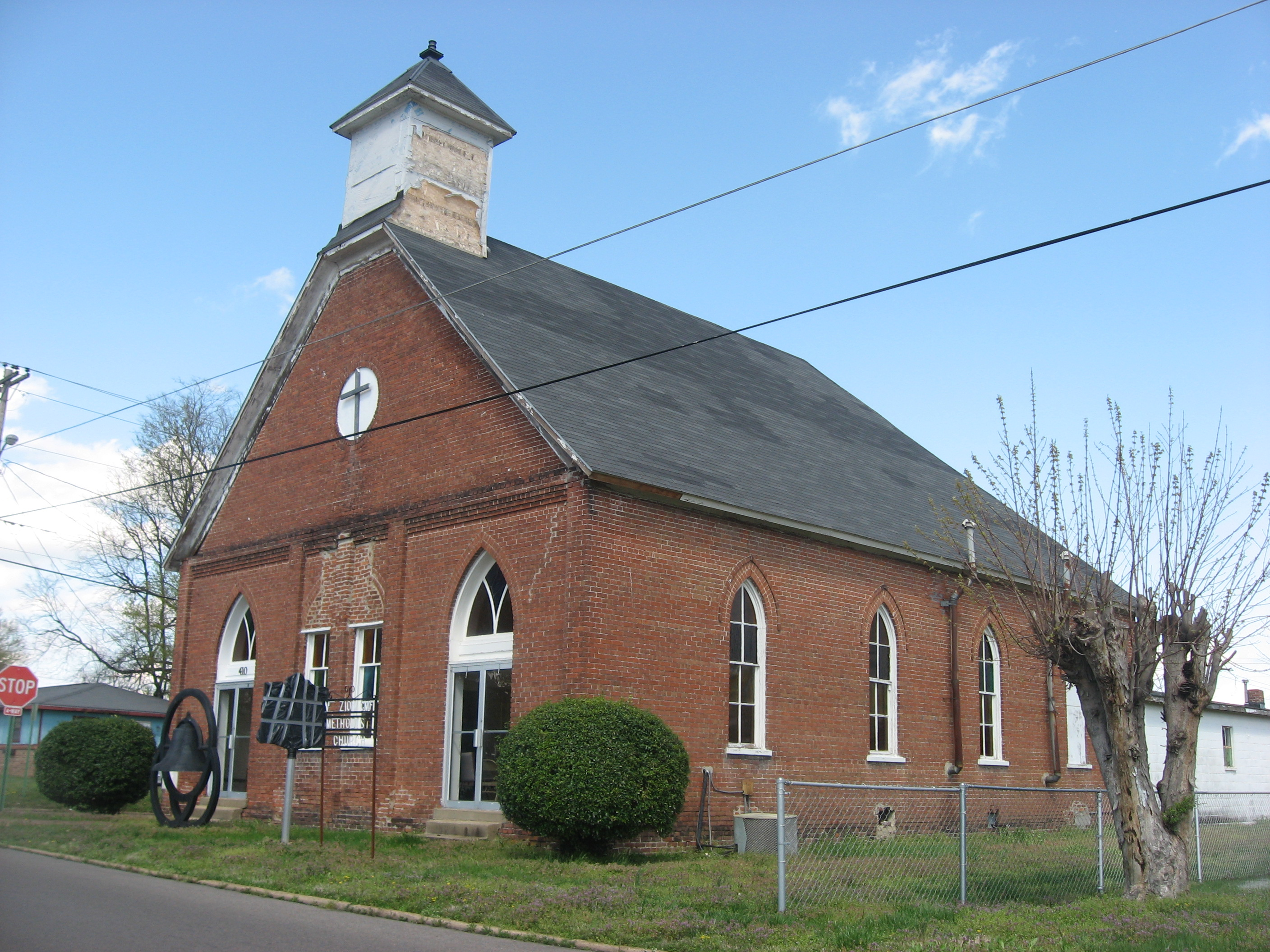 Front and southern side of the former Mt. Zion Colored Methodist Episcopal Church, located on the southeastern corner of the junction of College and Greenwood Streets in Union City, Tennessee, United States. Built in 1896, it is listed on the National Register of Historic Places.